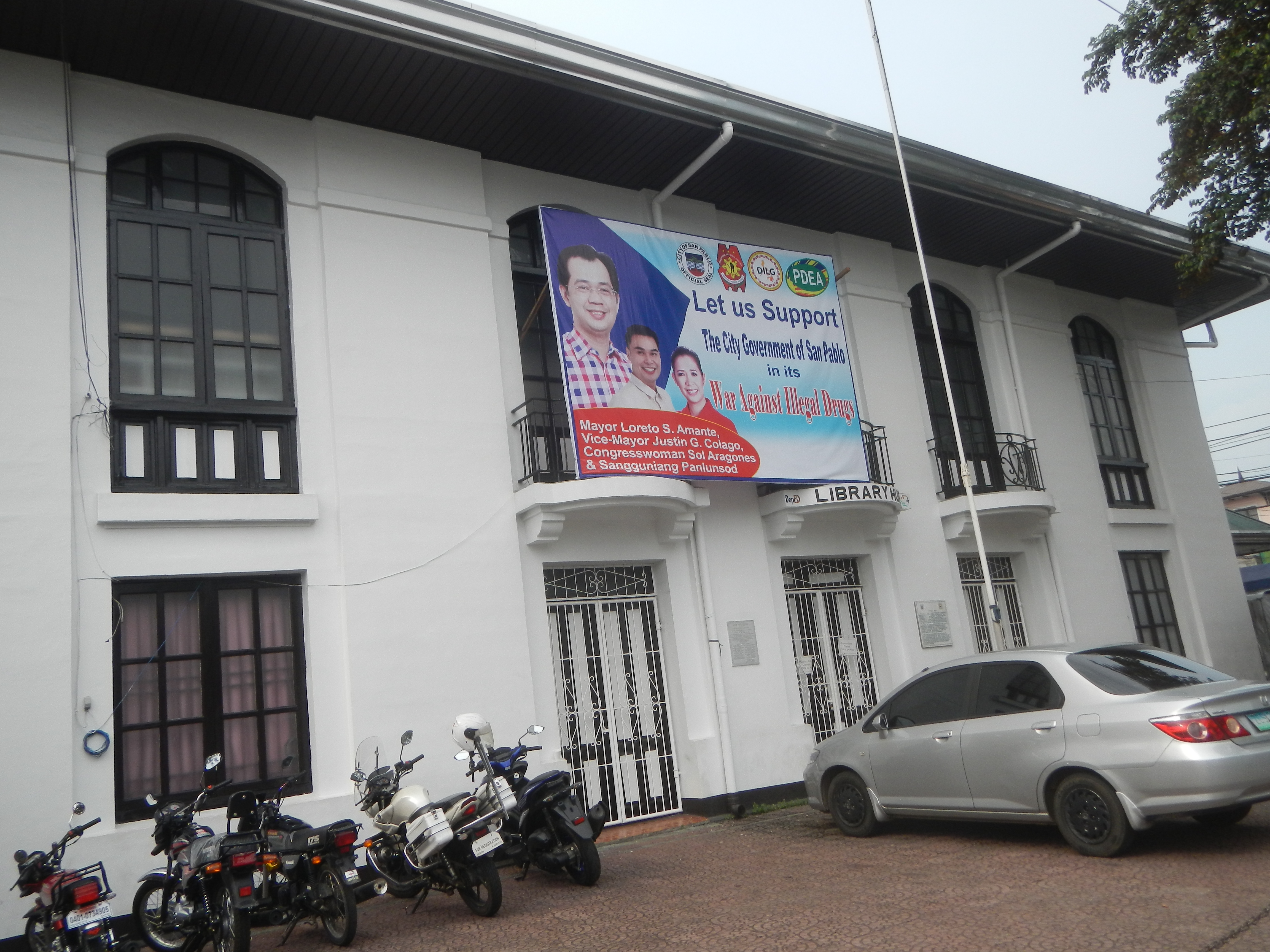 List of barangays in Laguna (province) Category:Barangays of San Pablo, Laguna Barangays Barangays V-B, V-C, V-D, IV-C IV-B II-C San Pablo, Laguna along Bay–Calauan–San Pablo Roadfrom Calamba–Los Baños Expressway to Calauan - Victoria Road interconnecting a national road at Los Baños-Bay Road of the Calamba–Pagsanjan Road surrounded by Bay River Philippine highway network (Note: Judge Florentino Floro, the owner, to repeat, Donor Florentino Floro of all these photos hereby donate gratuitously, freely and unconditionally Judge Floro all these photos to and for Wikimedia Commons, exclusively, for public use of the public domain, and again without any condition whatsoever).